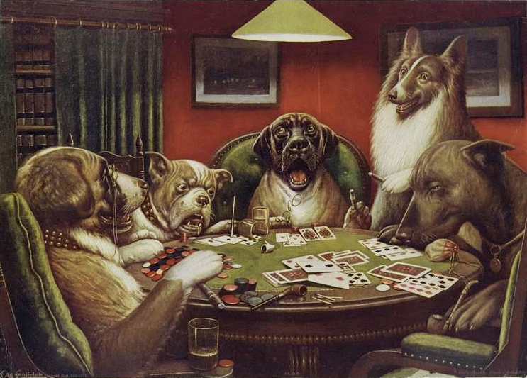 Print "A Waterloo" by Cassius Marcellus Coolidge.